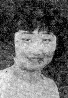 A newspaper photograph of a smiling young Asian woman with bangs and a bobbed haircut.